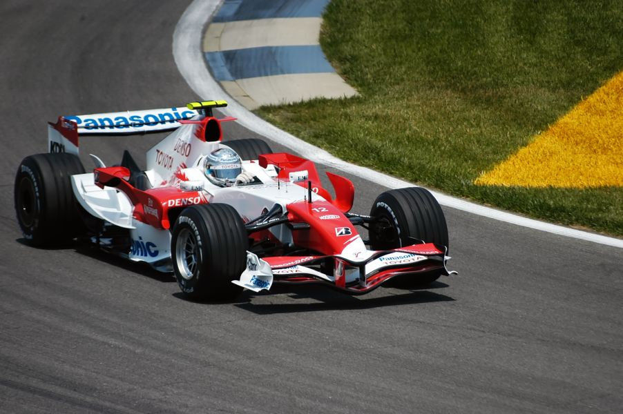 Jarno Trulli driving for Toyota F1 at the 2007 United States Grand Prix.